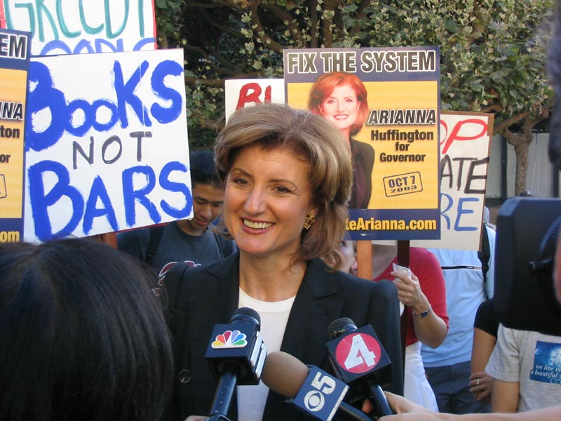 Arianna Huffington talks to the media during her short-lived attempt to become governor of California at UC Berkeley on September 11, 2003.